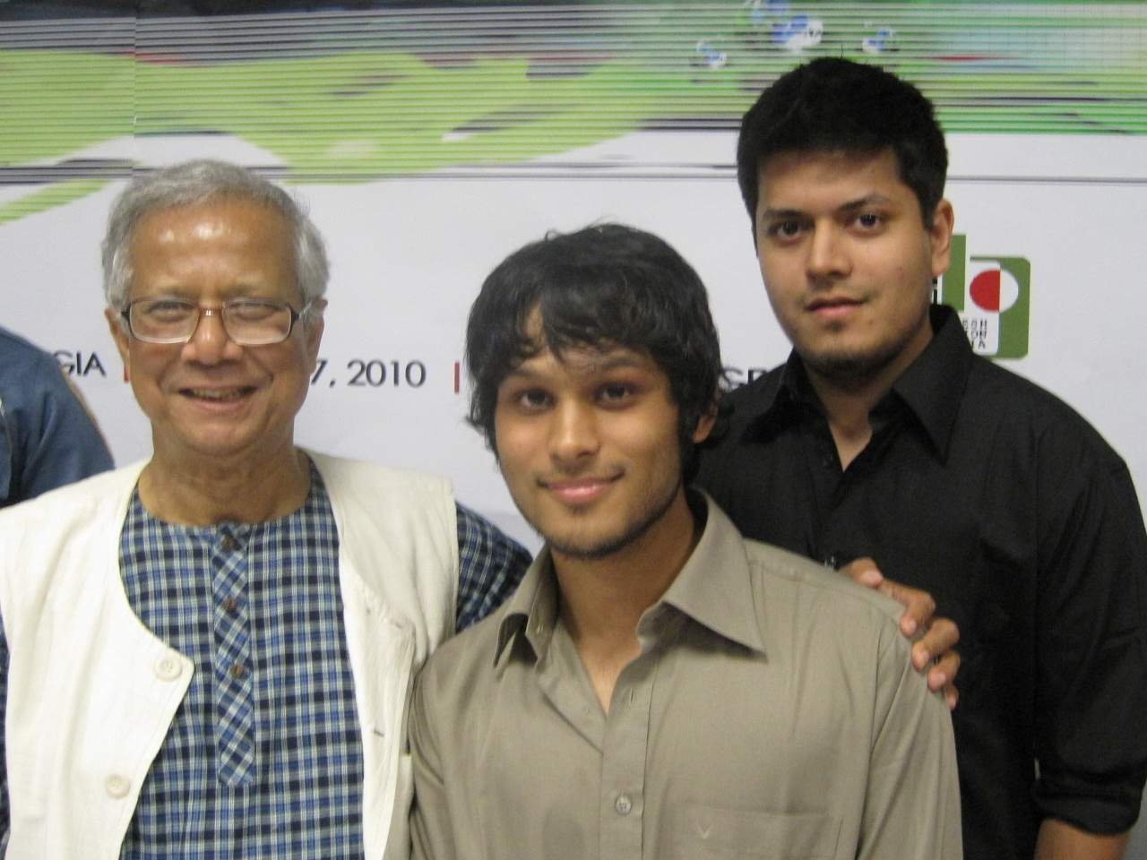 Nobel Gala with Peace Prize winners and social entrepreneurs Muhammad Yunus